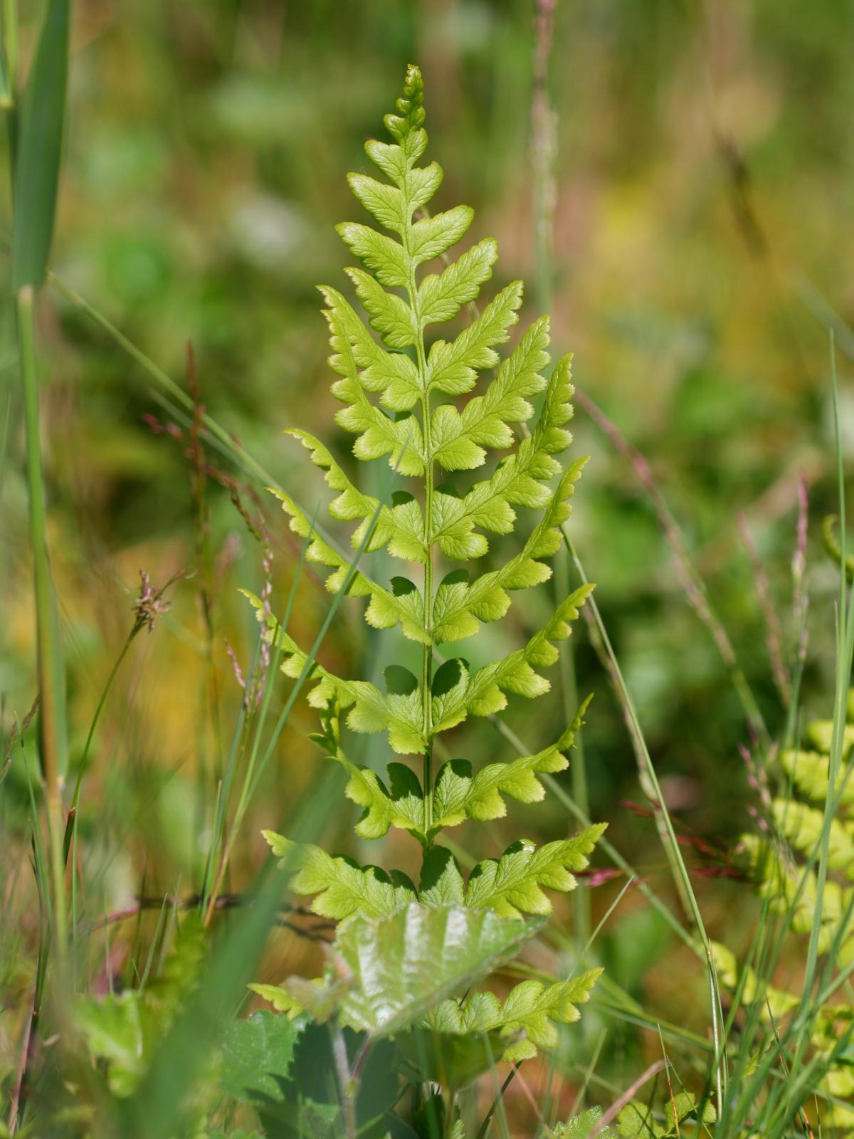 Kamm-Wurmfarn (Dryopteris cristata)